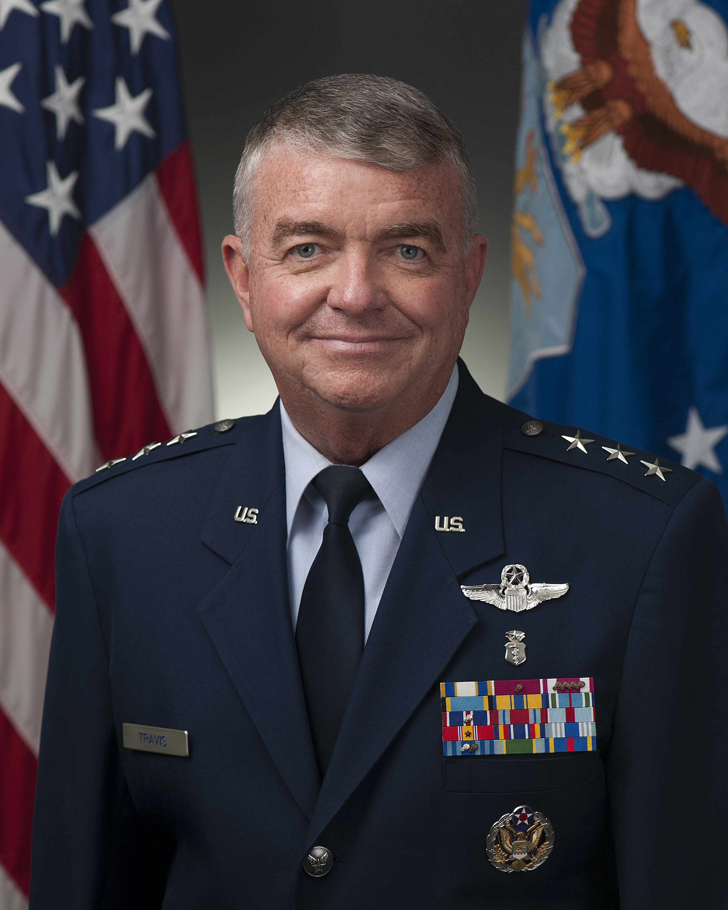 21st surgeon general of the US Air Force Lt. Gen. (Dr.) Thomas W. Travis was sworn in by Chief of Staff Gen. Norton A. Schwartz on July 20, 2012.